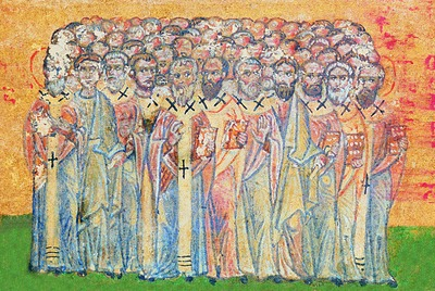 Seventy Disciples. Greek manuscript miniature